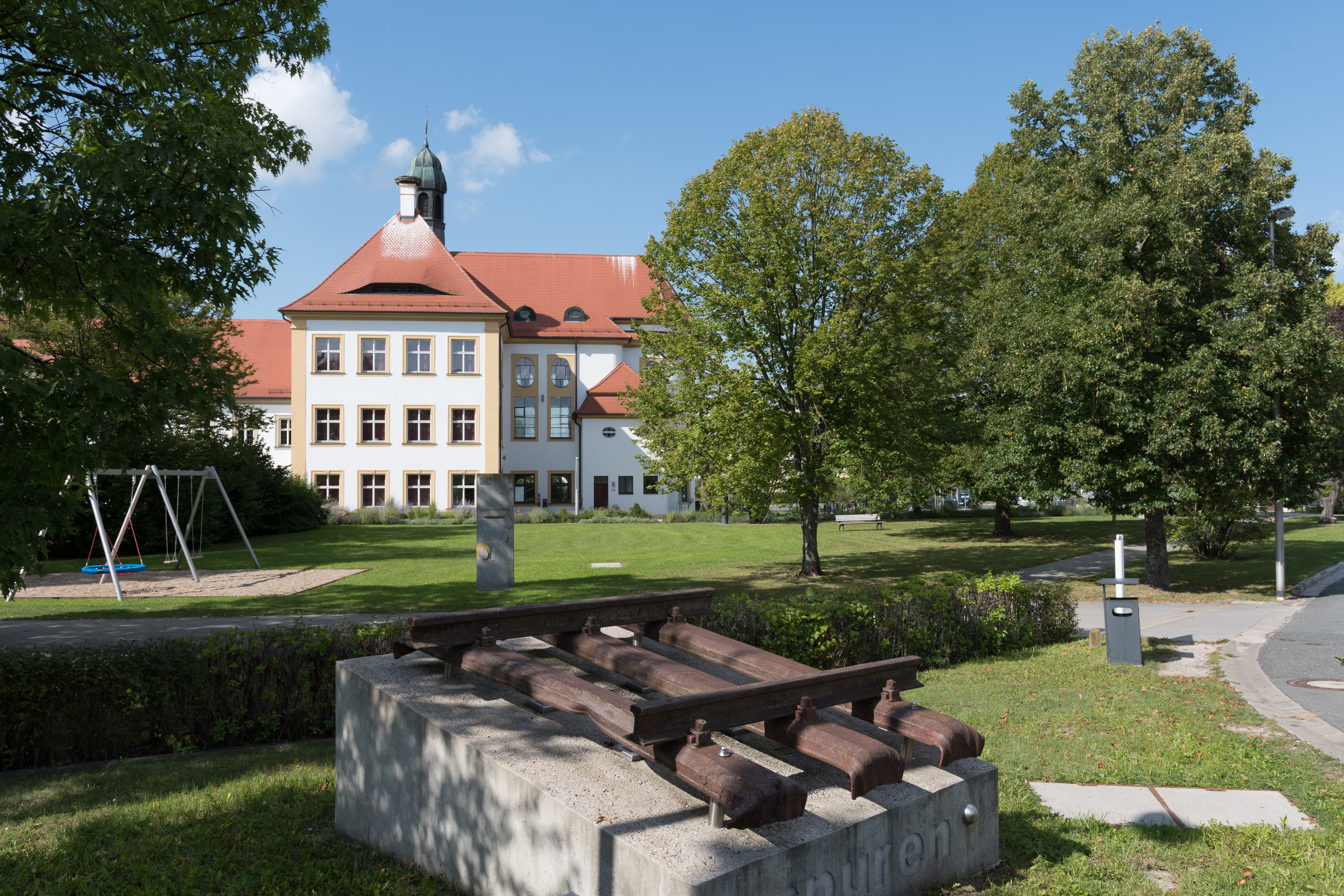 This is a photograph of an architectural monument.